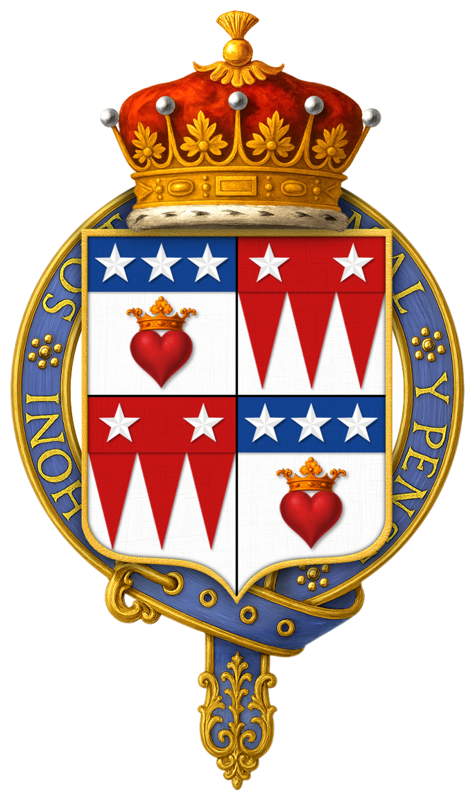 Coat of arms of Sir William Douglas, 7th Earl of Morton, KG